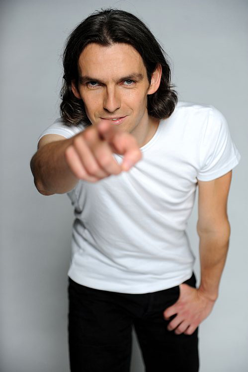 Wim Oosterlinck